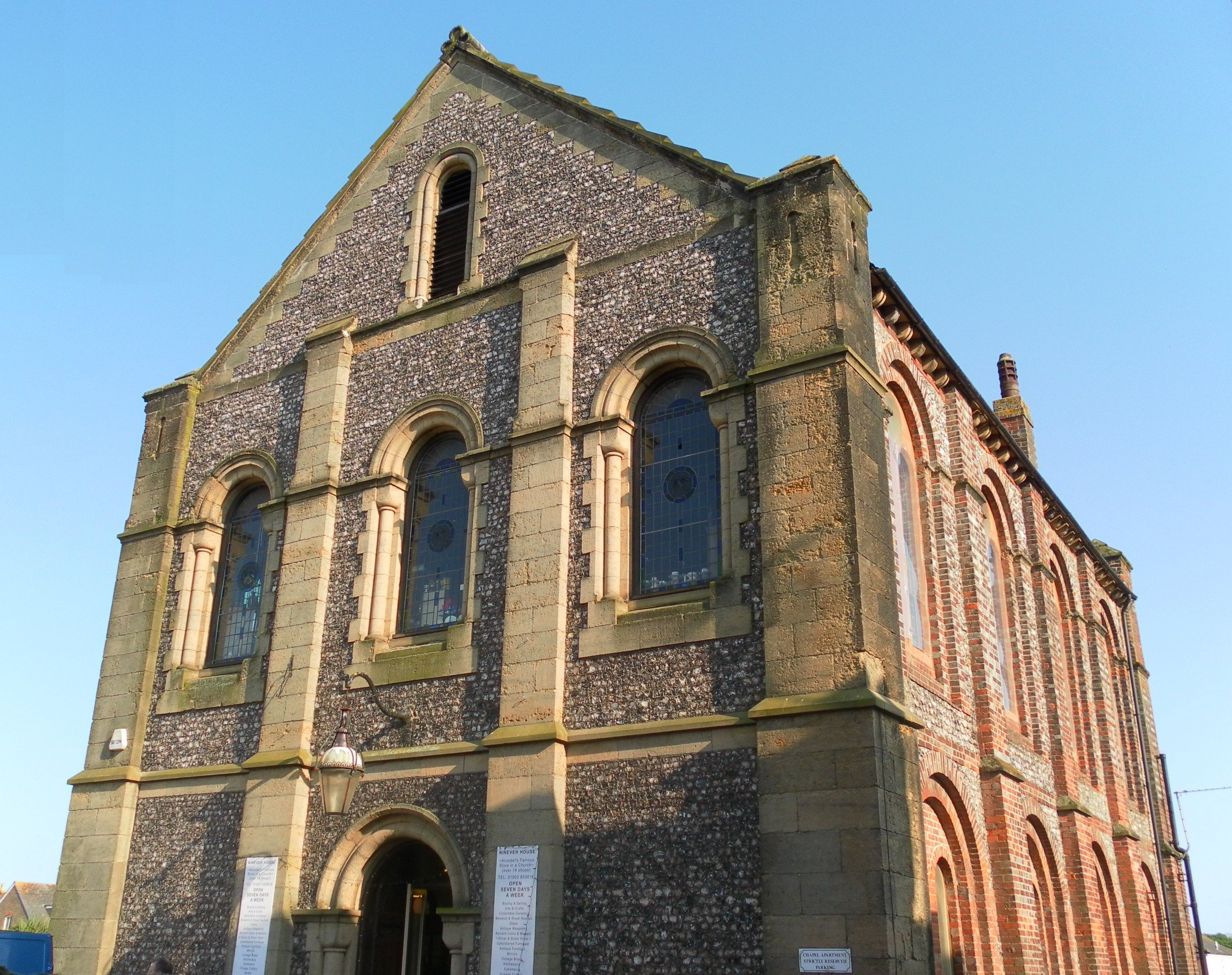 Former Trinity Congregational Chapel, Tarrant Street, Arundel, Arun District, West Sussex, England. Now an antiques market under the name Nineveh House. Listed at Grade II by English Heritage (NHLE Code 1277924)